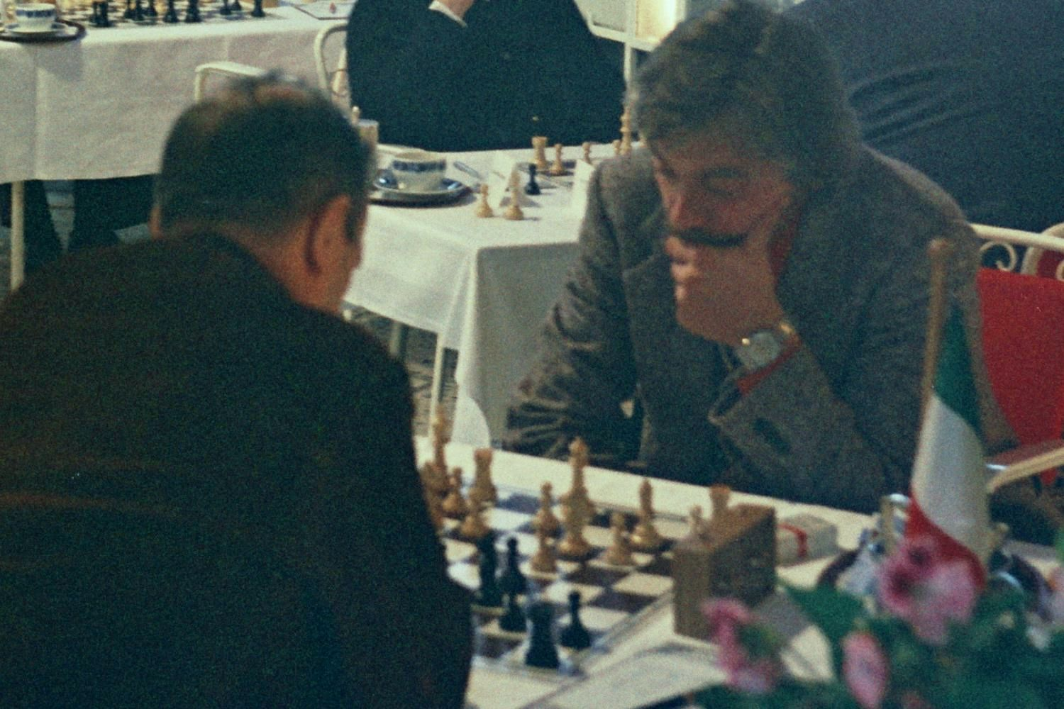 Game Manfred Krause - Enrico Paoli (left), Dortmunder Schachtage 1974, Photographer Gerhard Hund.